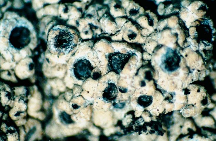 Diploschistes scruposus (Schreb.) Norman, 1853 (photograph of herbarium specimen taken through a dissecting microscope, x29) Growing in sheltered area on shore rock along Lake Superior, W side of Route 17, 12.5 miles N of Pancake Bay Provincial Park, Ontario, Canada; collected and identified by Richard E. Riefner (No. 81-517, 21 Jul 1981); specimen is now in the Lichen Herbarium of the New York Botanical Garden.